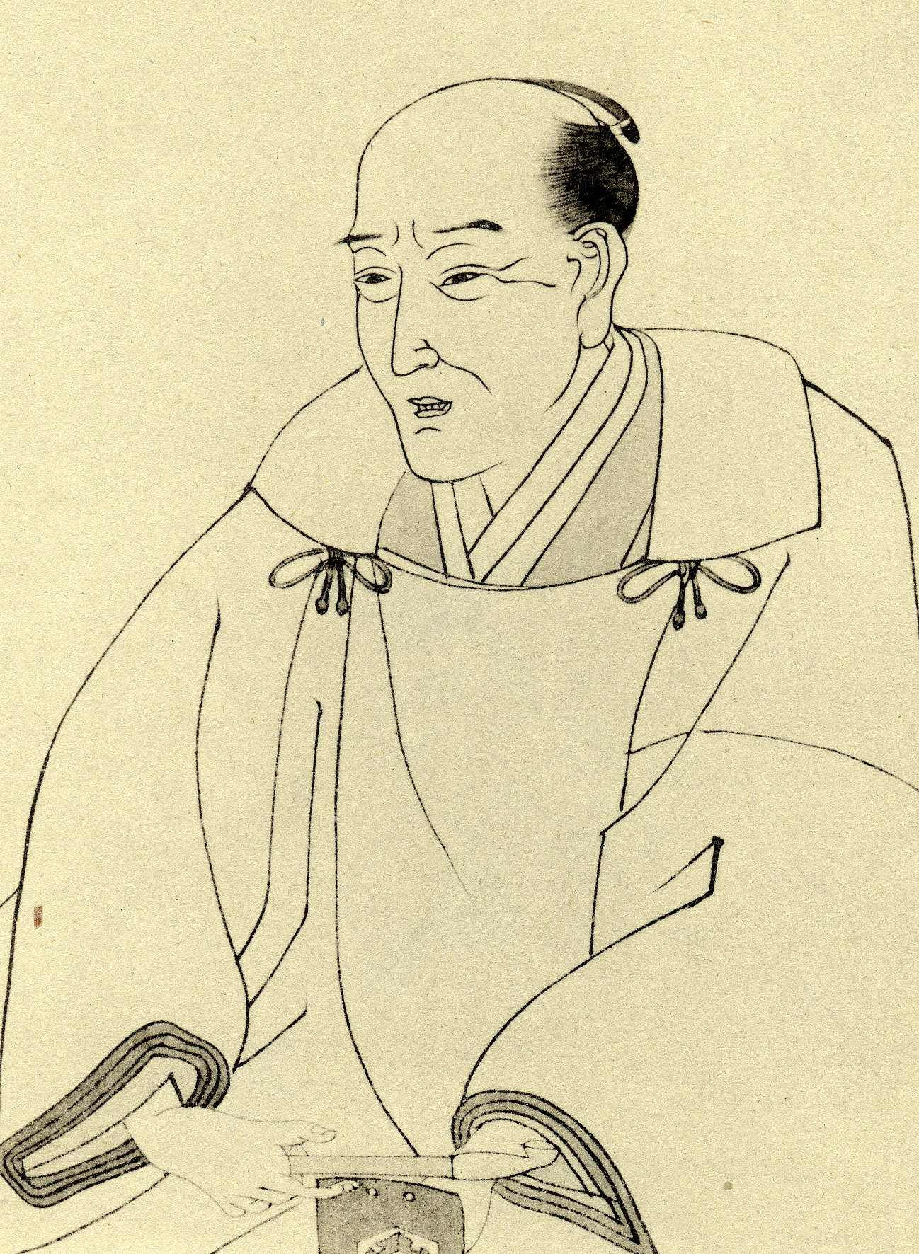 Ryutei Tanehiko（柳亭種彦）was a Japanese comic writer of the Edo period.